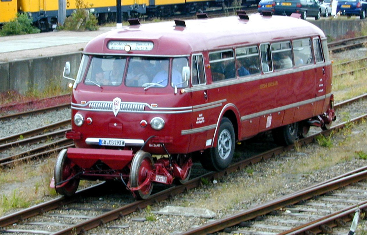 Schienen-Straßen-Omnibus of Deutsche Bahn at Hoorn Station.